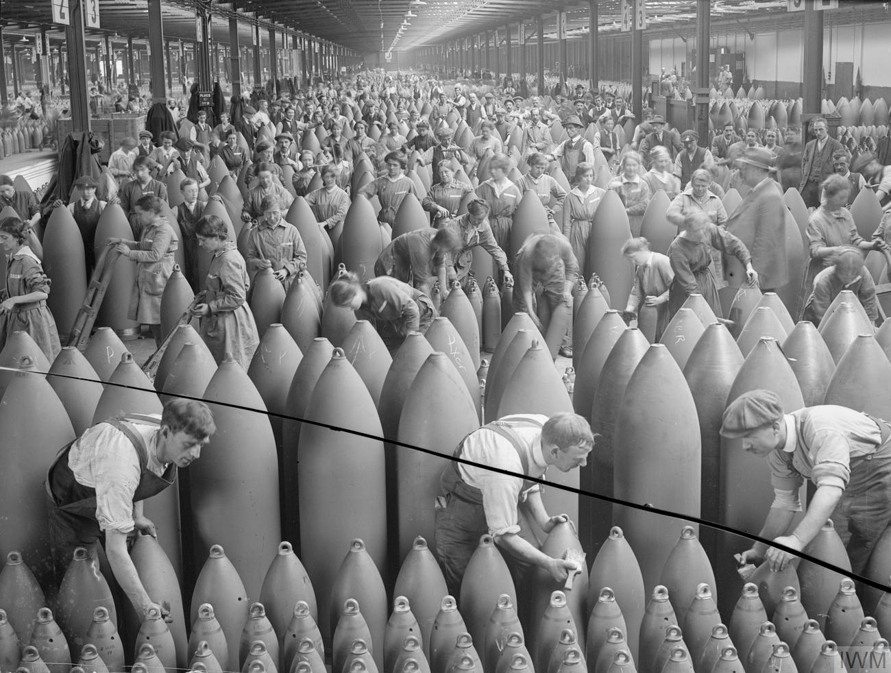 Munitions Production on the Home Front, 1914-1918 Painting shells in the National Shell Filling Factory, Chilwell.